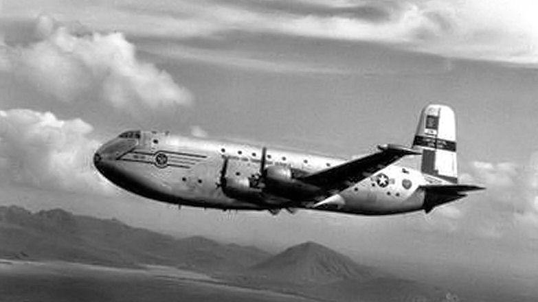 C-124A over Hawaii about 1957